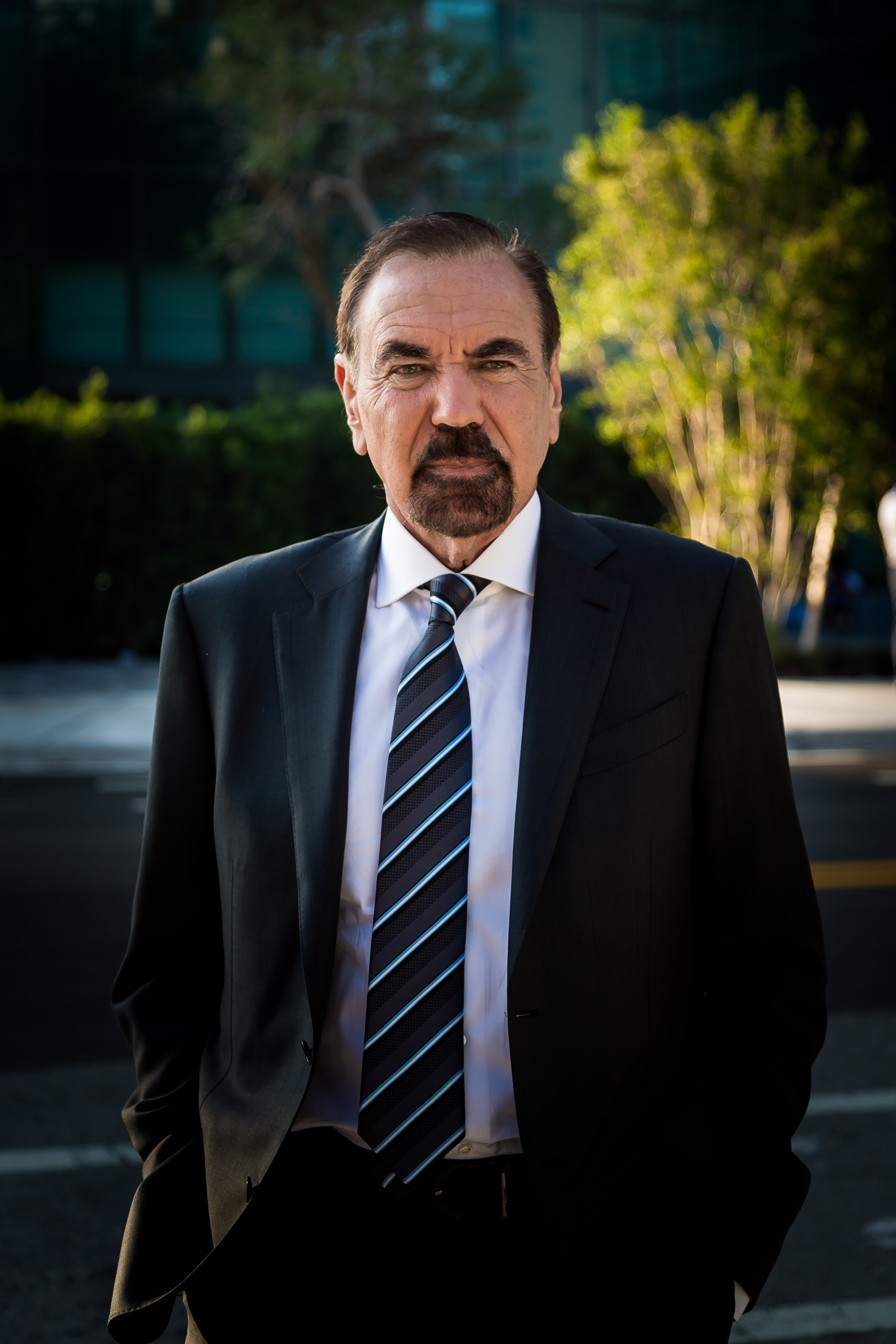 American real estate developerJorge Pérez